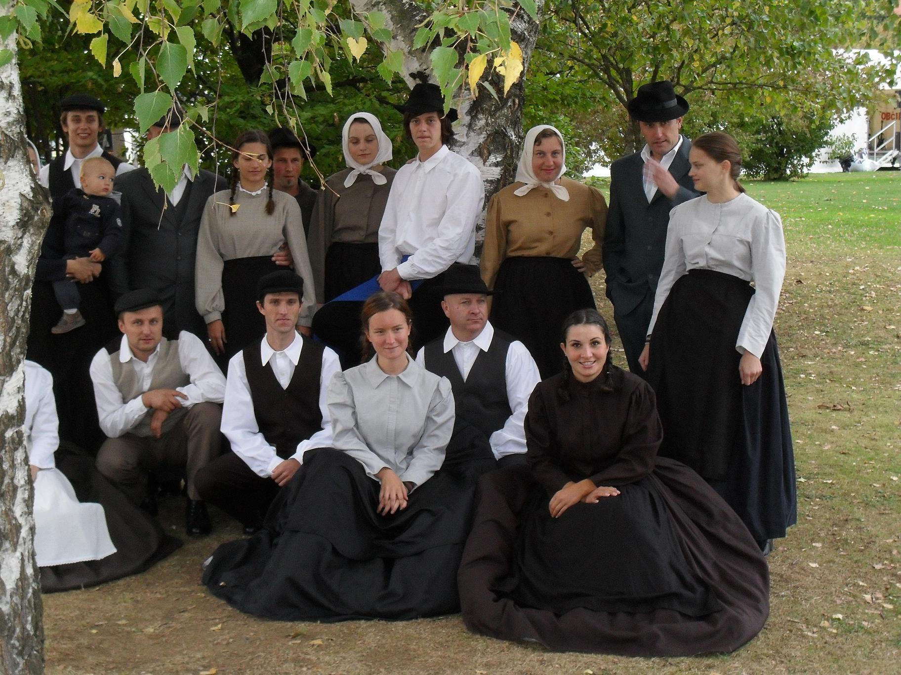 Prekmurian dancing and singing group from Moščanci – the group sings in Prekmurian language (prekmurščina).